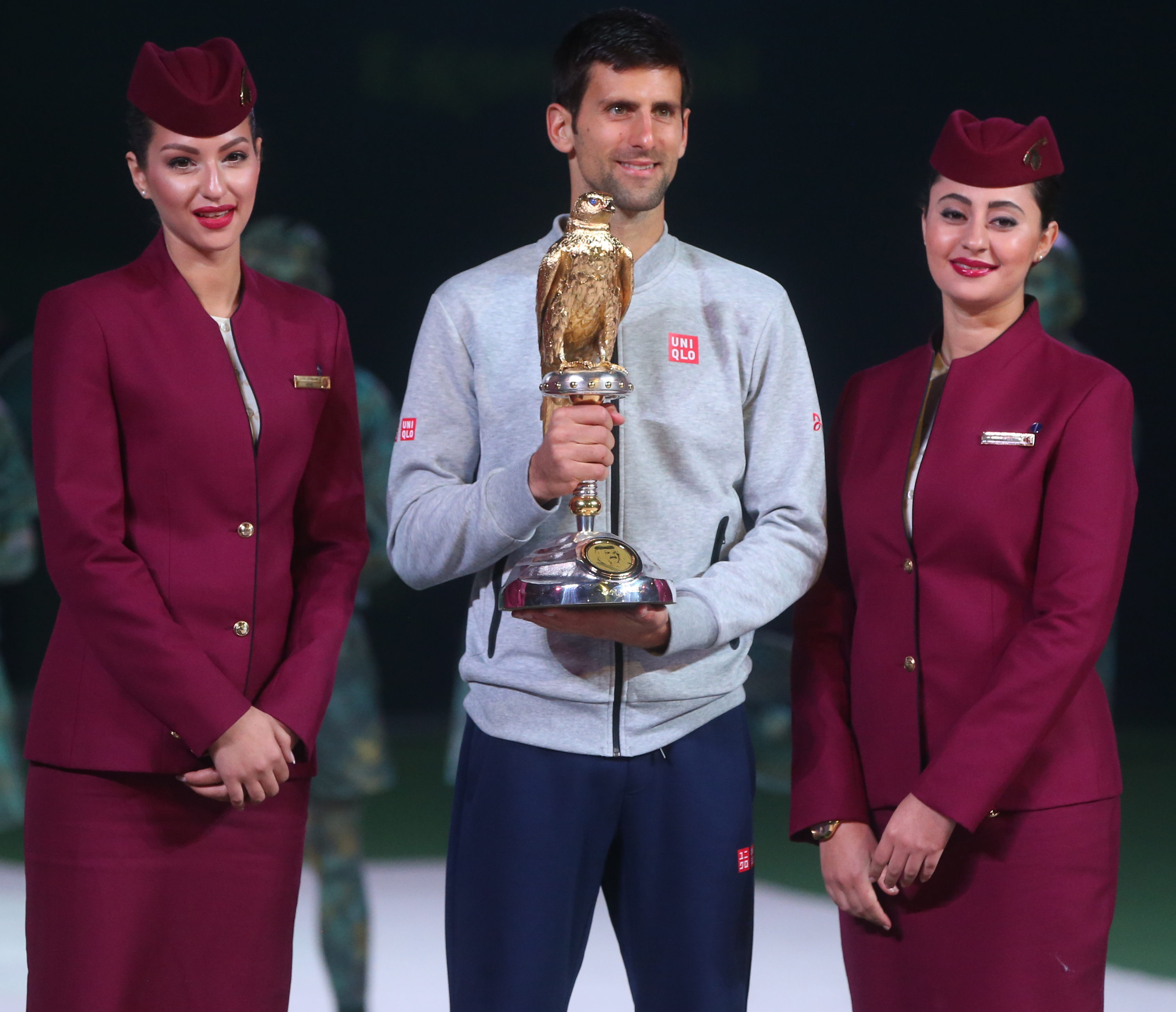 Novak Djokovic won the Qatar open 2017 photo by Hanson K Joseph